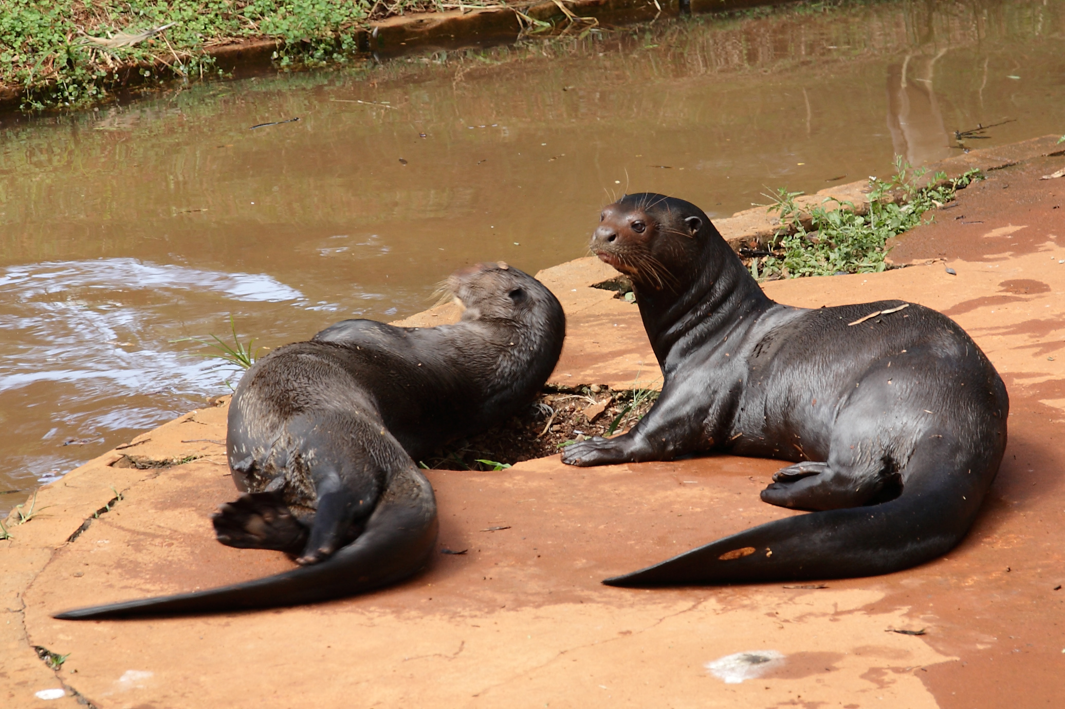 Two Giant Otters (Pteronura brasiliensis) at the zoo of Brasília, Brazil.